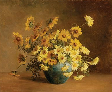 Marie Madeleine Seebold Molinary - Black‑Eyed Susans in Green Art Pottery Vase